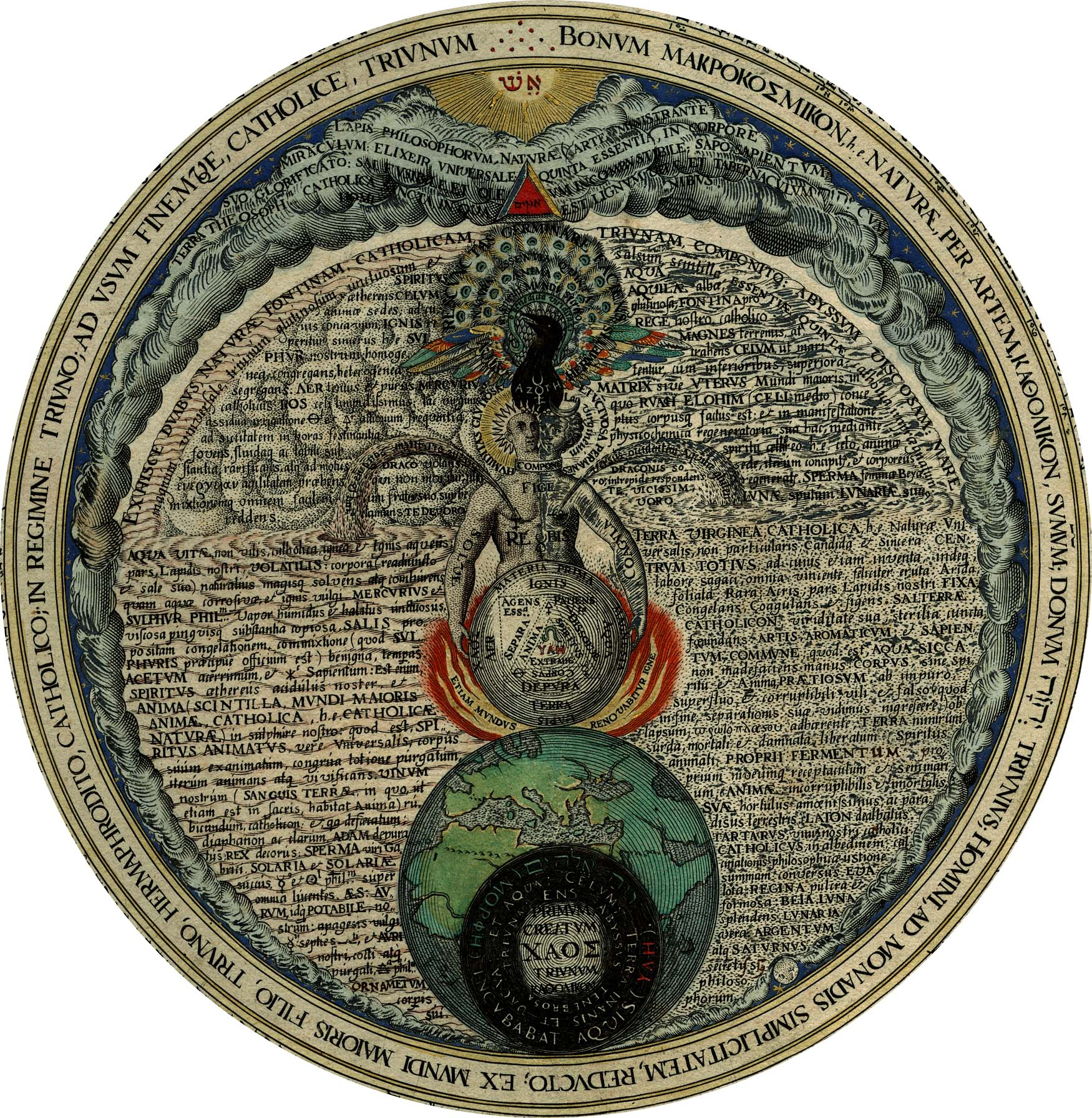 The hermaphrodite engraving pictured in the book Amphitheatrum sapientiae aeternae written by Heinrich Khunrath